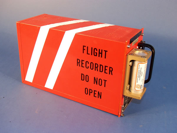 The CVR records the flight crew's voices, as well as other sounds inside the cockpit. The recorder's "cockpit area microphone" is usually located on the overhead instrument panel between the two pilots. Sounds of interest to an investigator could be engine noise, stall warnings, landing gear extension and retraction, and other clicks and pops. From these sounds, parameters such as engine rpm, system failures, speed, and the time at which certain events occur can often be determined. Communications with Air Traffic Control, automated radio weather briefings, and conversation between the pilots and ground or cabin crew are also recorded.